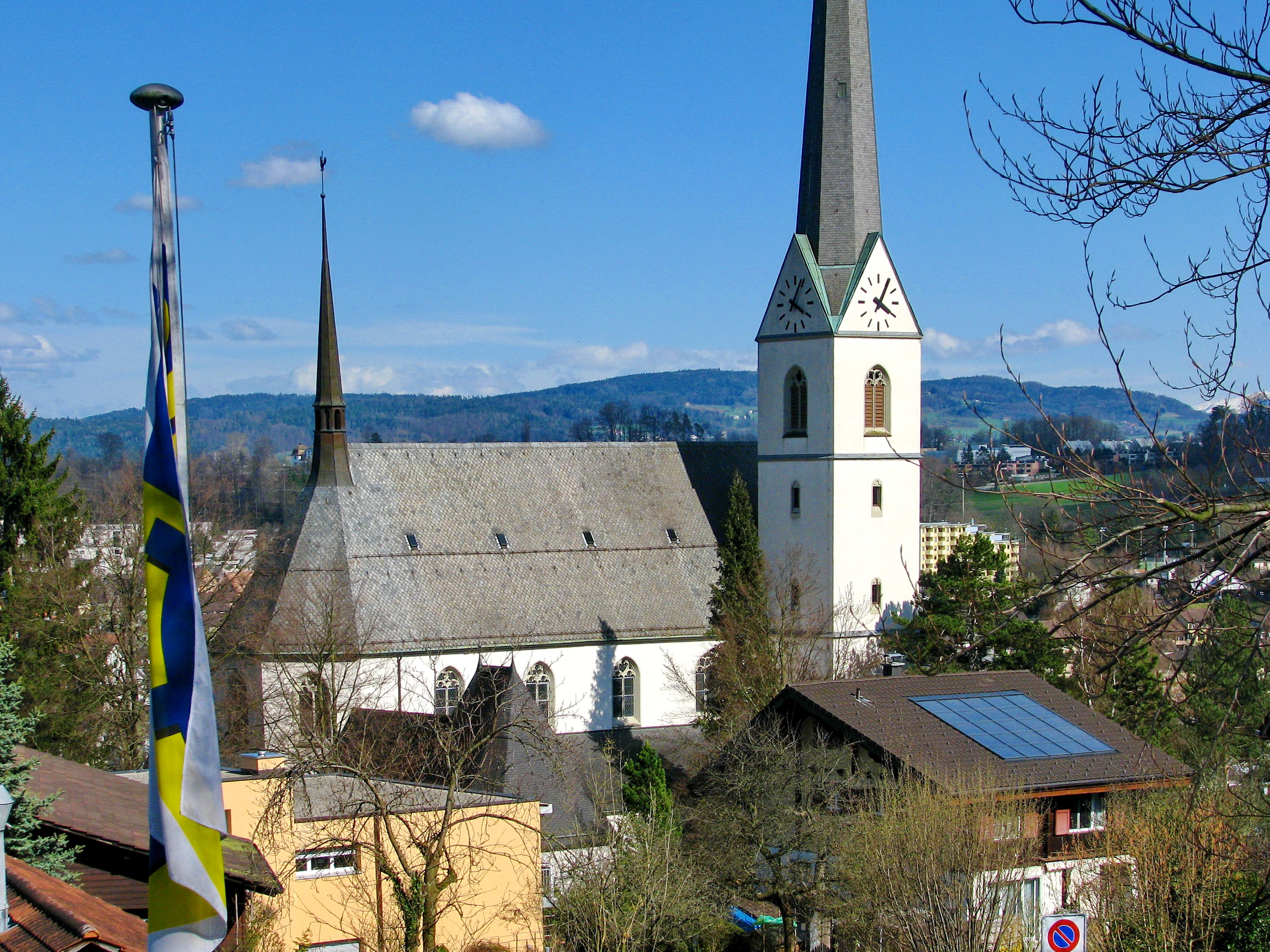 Luftseilbahn Adliswil-Felsenegg, Adliswil in the background.